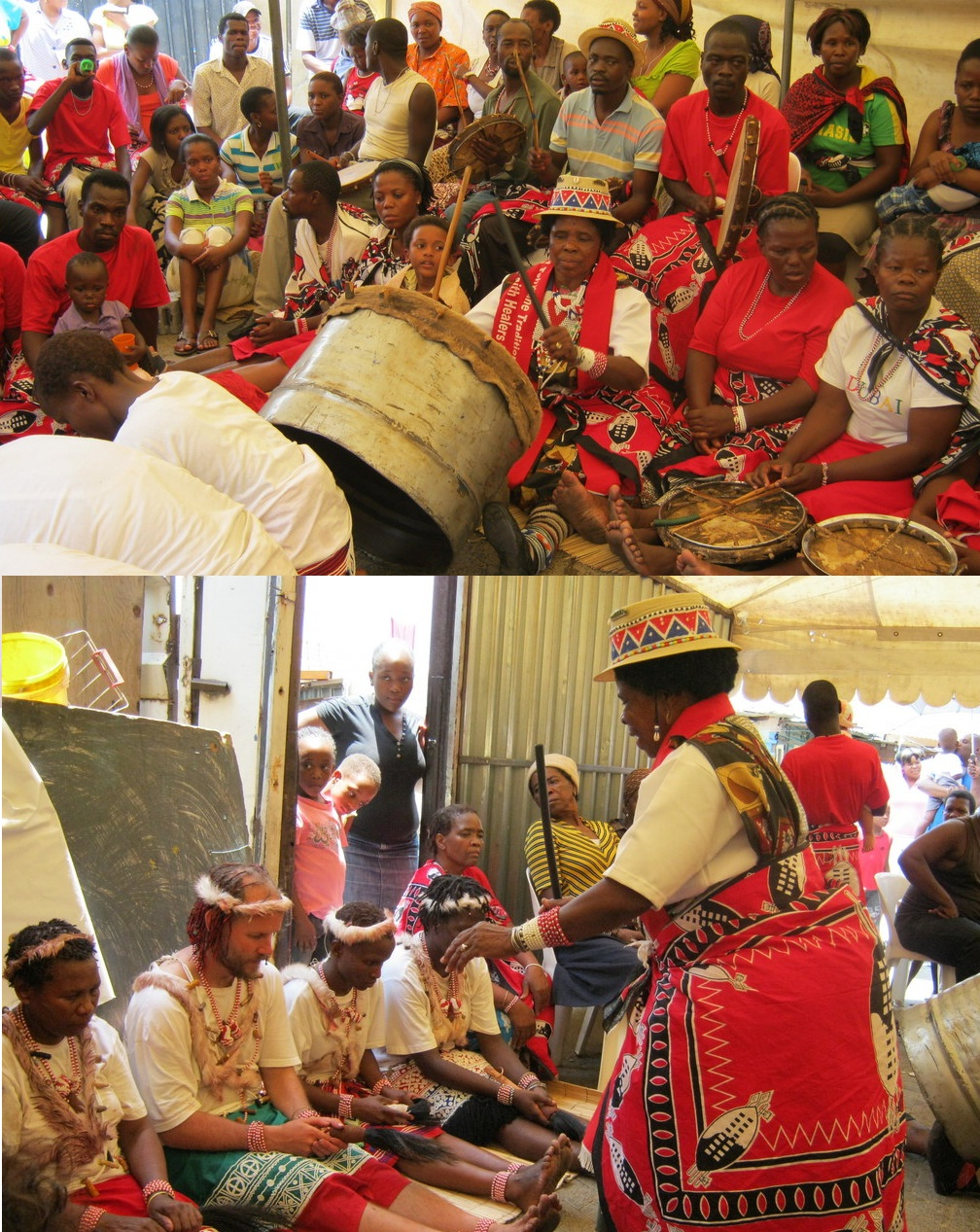 Gogo Michelle of the Tshwane Traditional & Faith Healers Forum welcome the new sangomas after a successful initiation